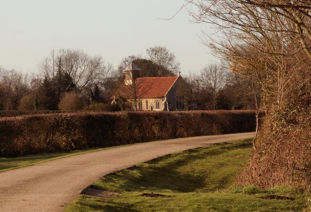 St. Mary's; the parish church of Ovington This church stands close to Ovington Hall and dates back to the 14th century. A large part of it was restored by the Victorians.